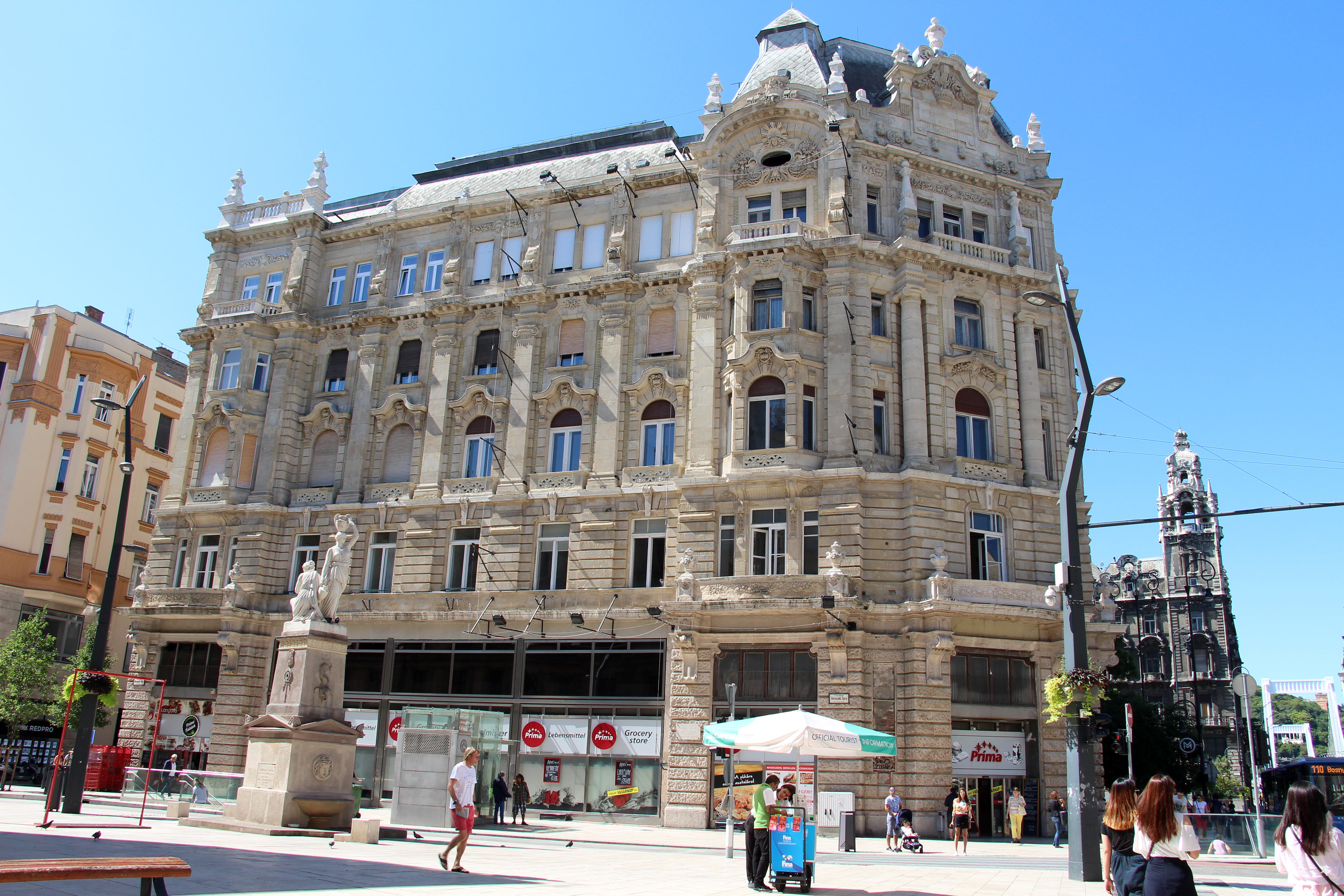 Belváros - Ferenciek tere Royal apartment building. Hungarian secession. Arch. Flóris Korb and Kálmán Giergl 1902